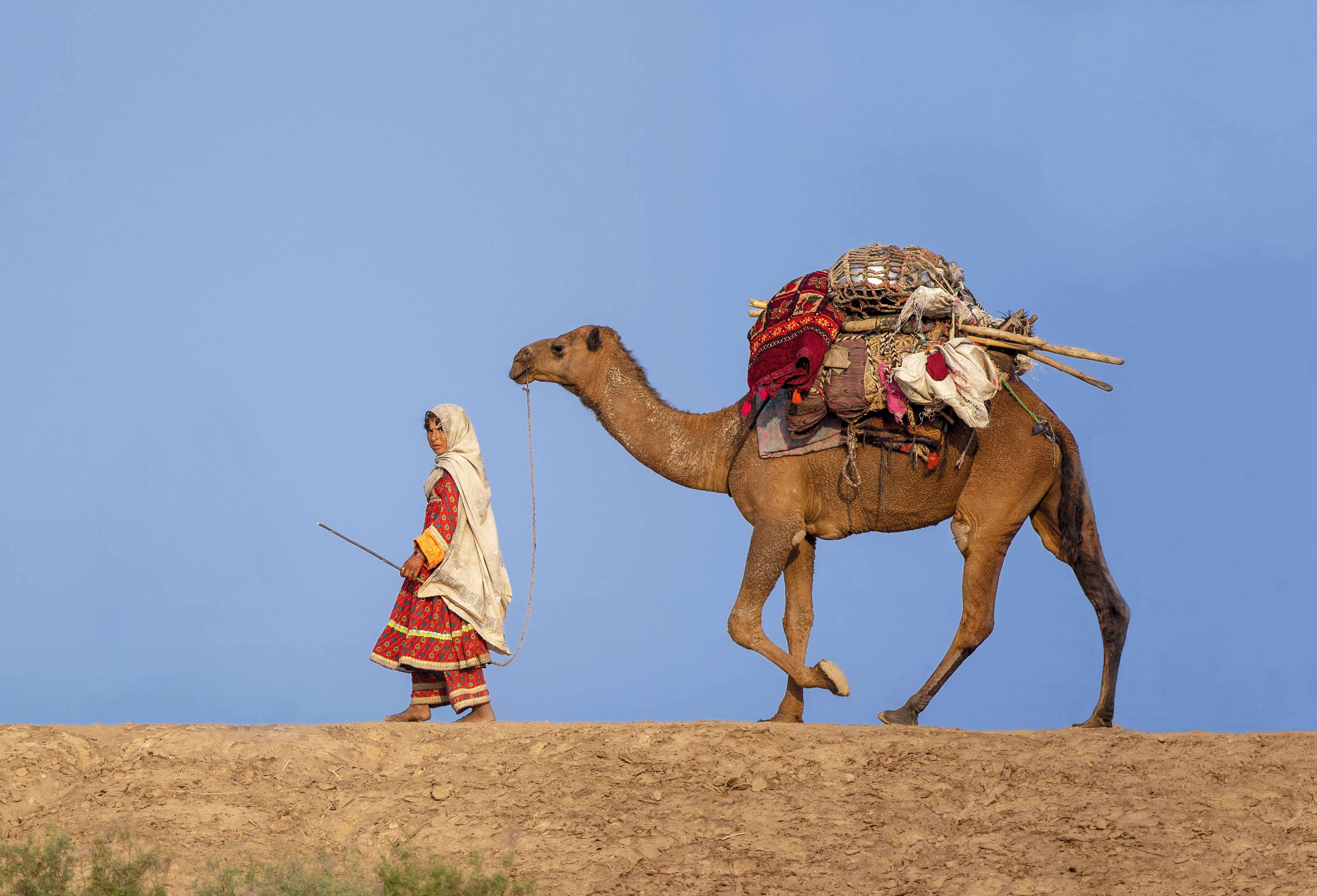 A woman is traveling with her camel in Baluchistan , Pakistan